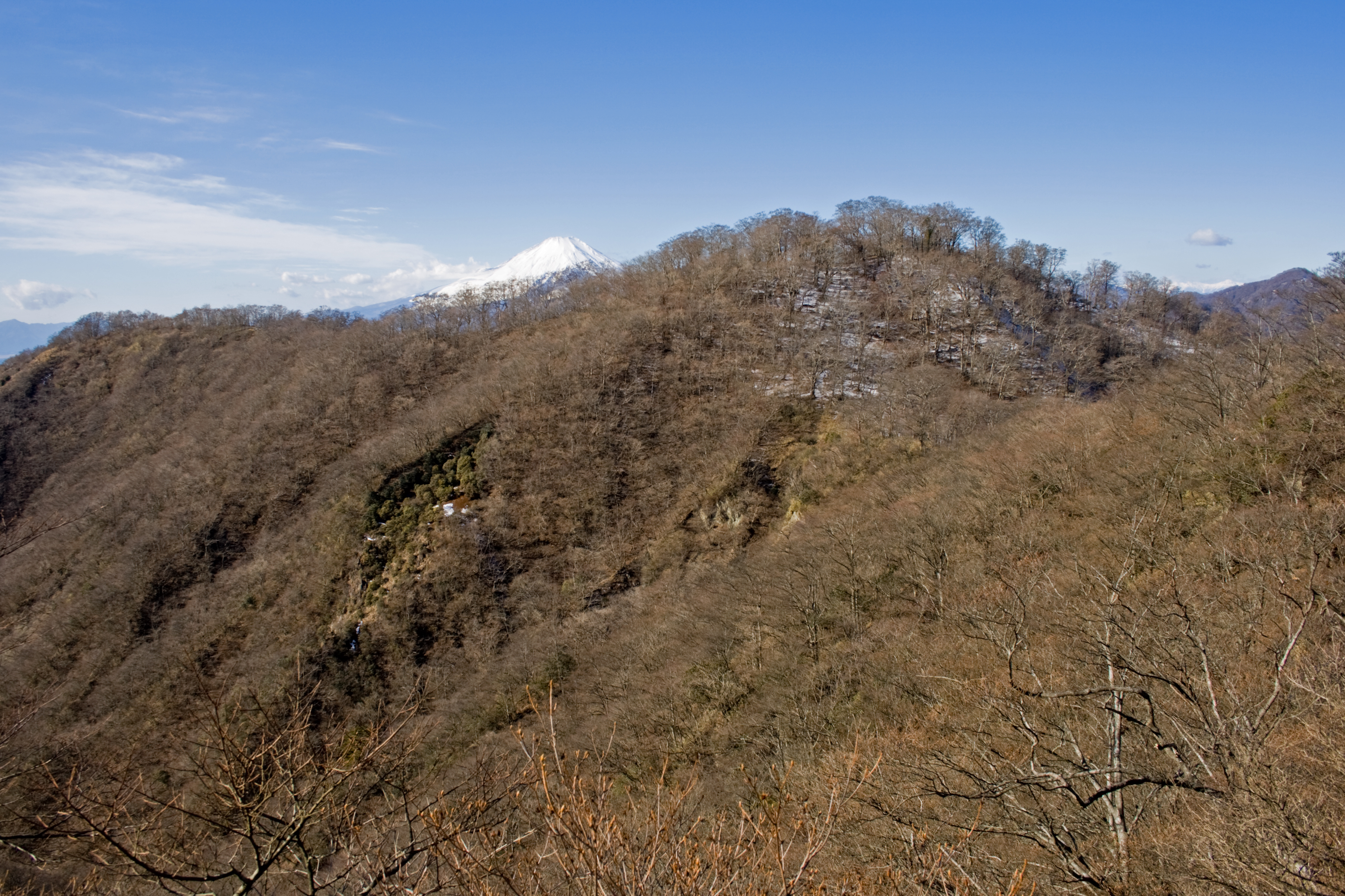 Mt.Ōmaru seen from Mt.Hanadate, Tanzawa, Kanagawa, Japan.